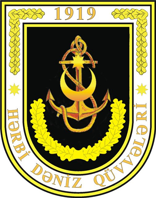 Ceremonial naval flag of Azerbaijan. Manually traced from an image at the World Flag Database.